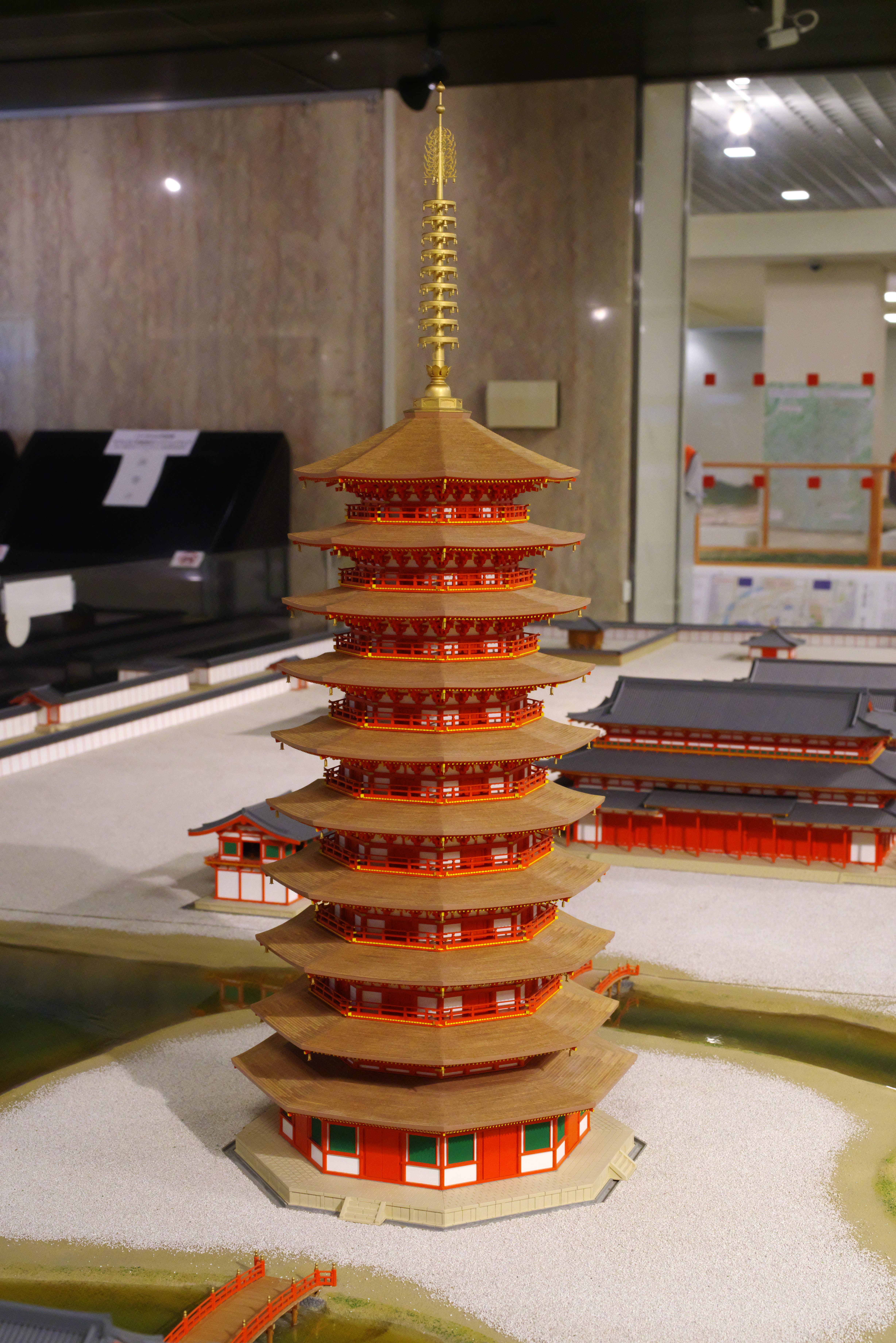 Model of nine-story pagoda of Hosshoji